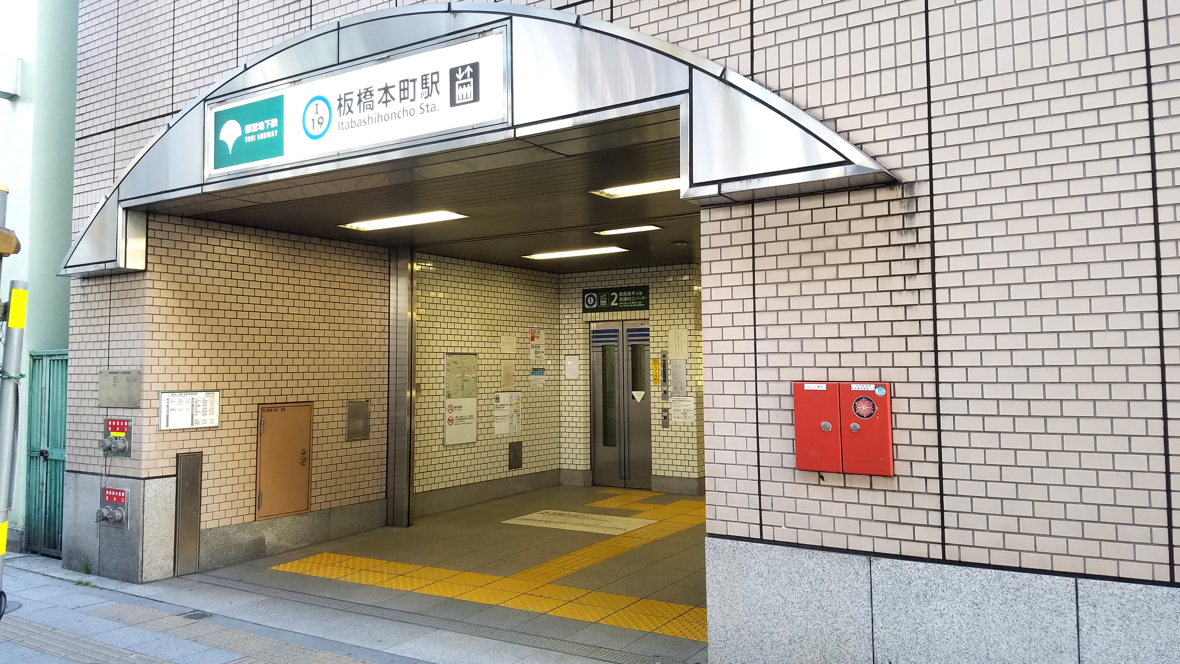 The A3 entrance to Itabashihonchō Station on the Toei Mita Line in Itabashi city, Tokyo, Japan